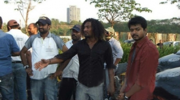 Thalaiva movie on location still